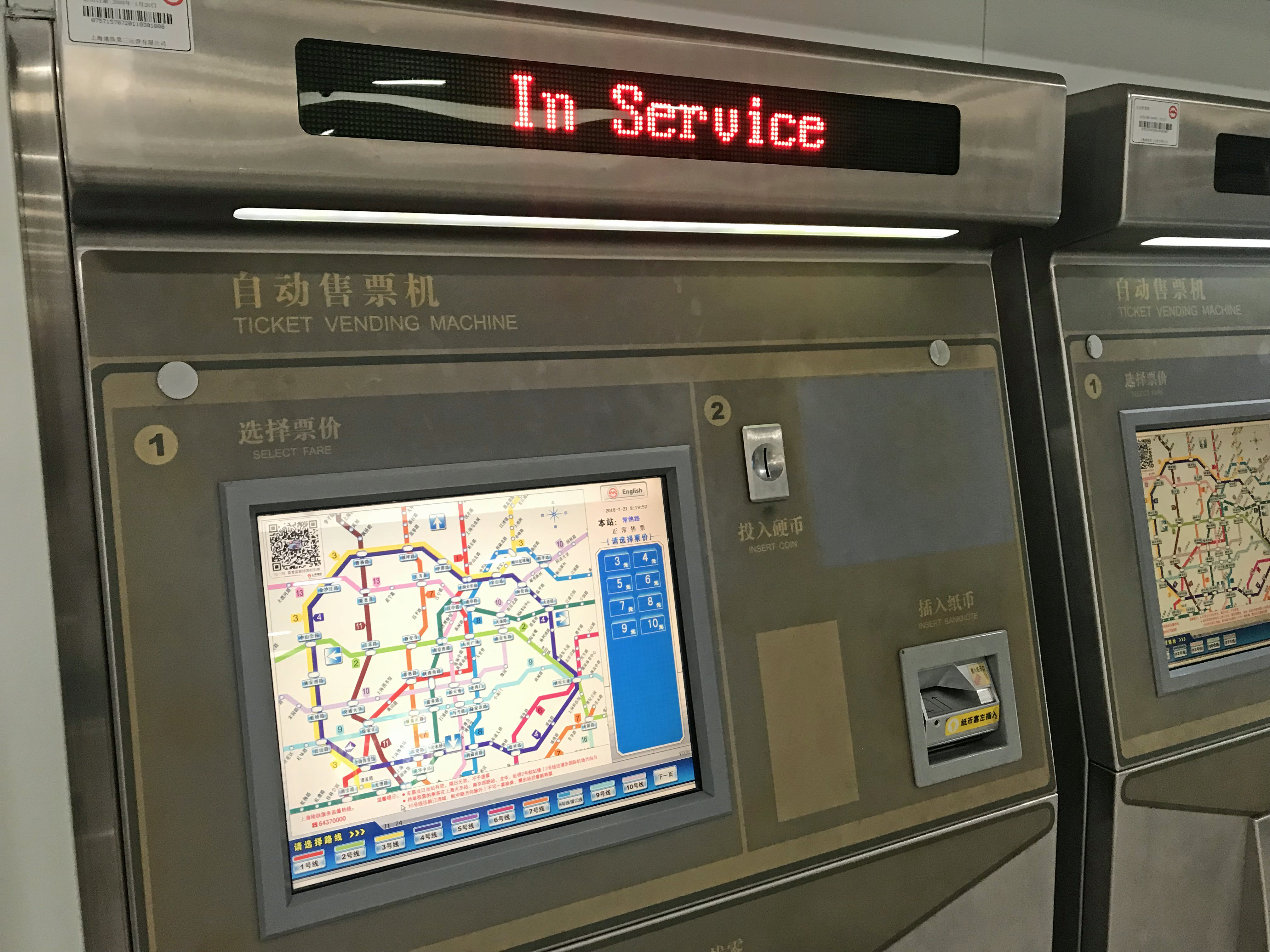 Fortbewegung in Shanghai: Shanghai Metro Ticket-Maschine. Hier kannst Du Einzeltickets kaufen. Machine where you can buy tickets for Shanghai Metro. You're welcome to use this picture free of charge, as long as you follow the license terms. As a matter of courtesy a link (dofollow links are welcome!) to is much appreciated. Thank you! ————————–—–—–—–—–—–—–—–—–—–—–—–—–—–—– Du kannst dieses Bild gemäß der Lizenzbestimmungen unentgeltlich nutzen. Über eine Verlinkung (dofollow am liebsten) auf freuen wir uns. Danke!